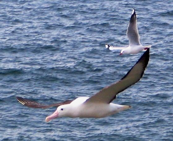 photo of a Northern Royal Albatross with a Red-Billed Gull at Taiaroa Head, New Zealand